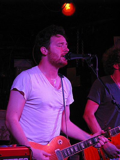 Alex Dezen on stage at The Saint in Asbury Park, NJ 09232011